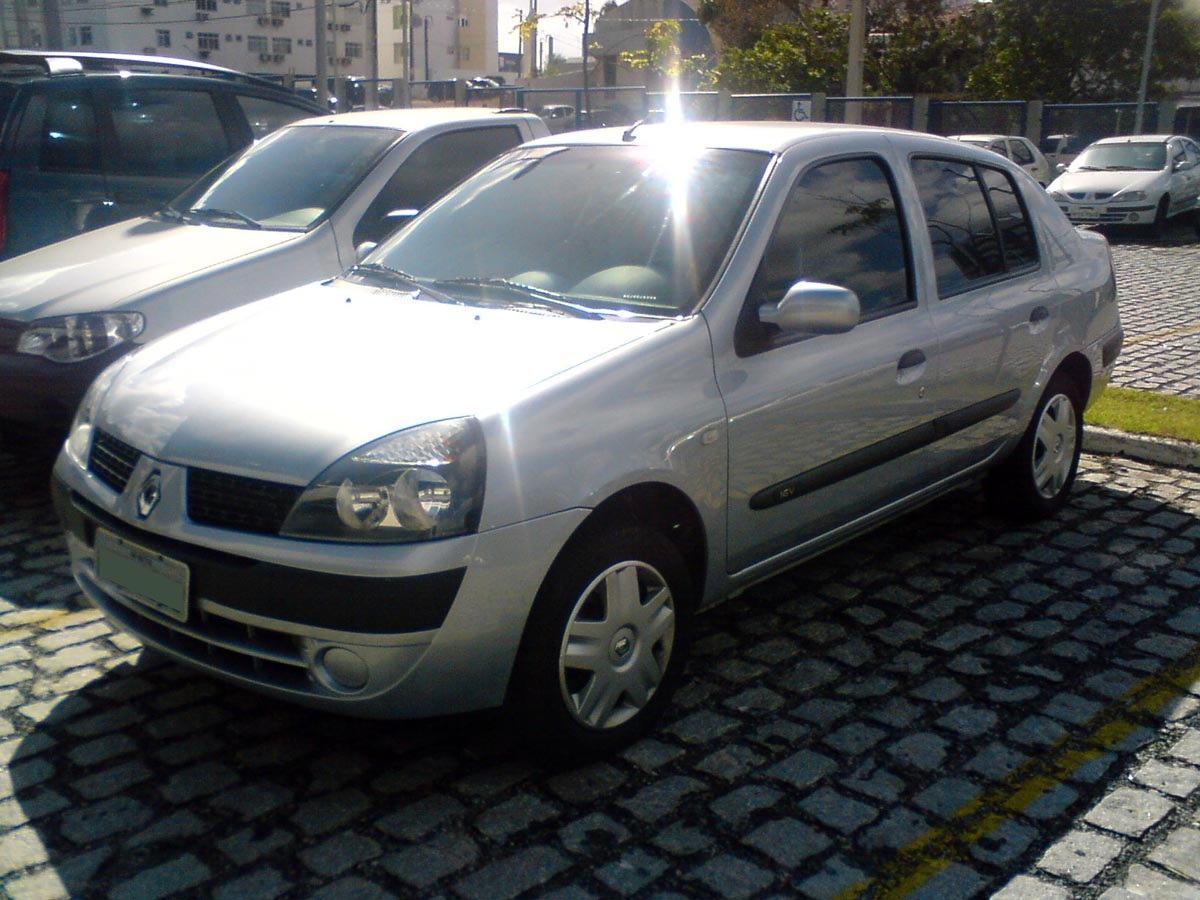 Renault Clio Sedan Privilége Alizé, Brazilian 2006 model, silver